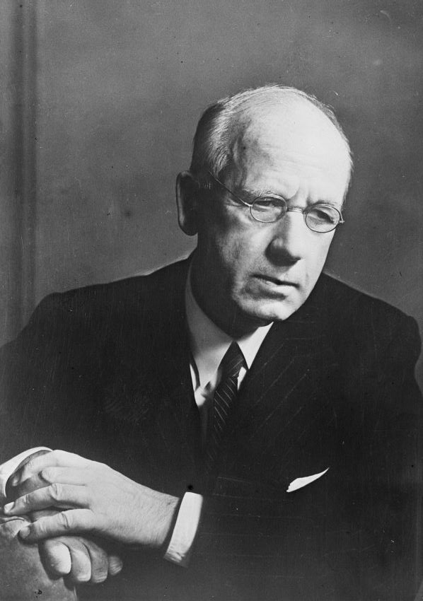 Photograph of New Zealand Prime Minister Peter Fraser c. 1946.